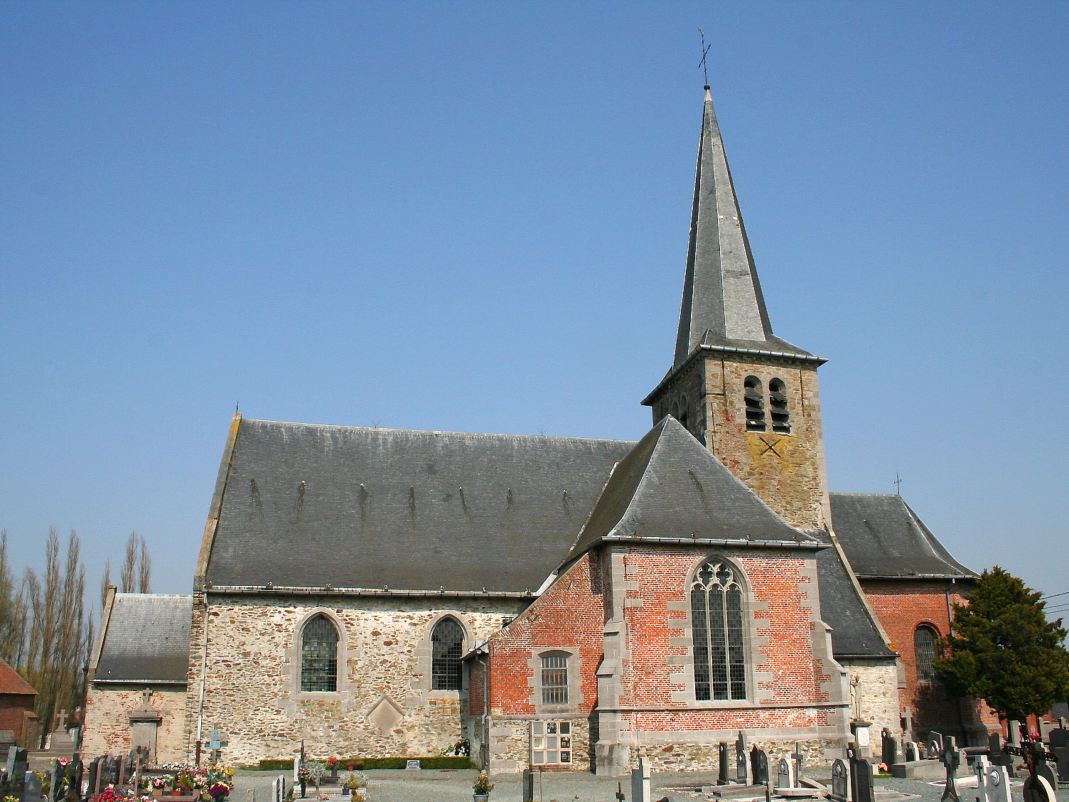 Hoves (Belgium), the St. Maurice church (major part of the XIth century with restored parts of the XVII/XVIIIth centuries).